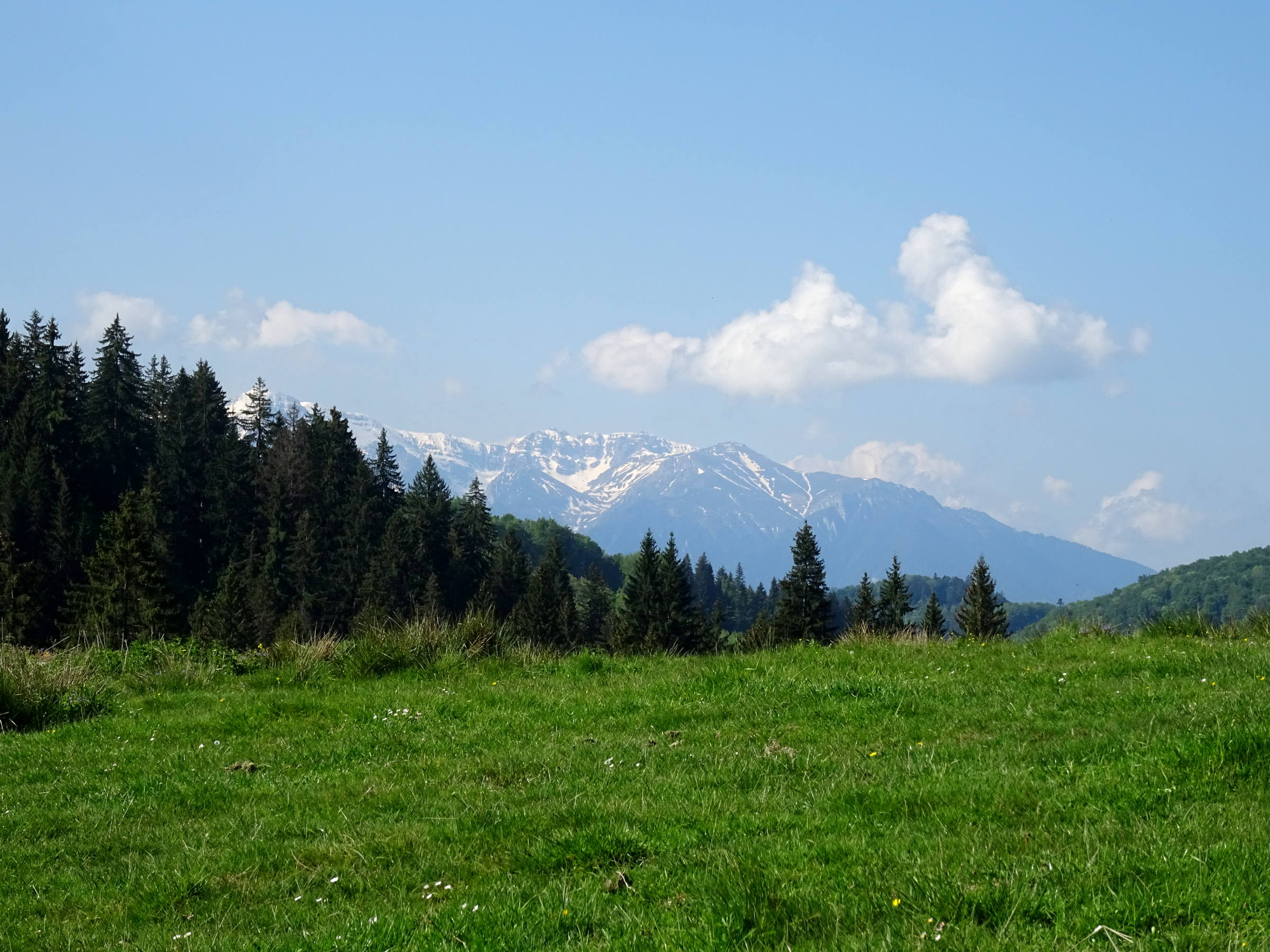 Scenery near Poiana Brasov resort, Romania. In the distance you can see the Piatra Craiului mountains.